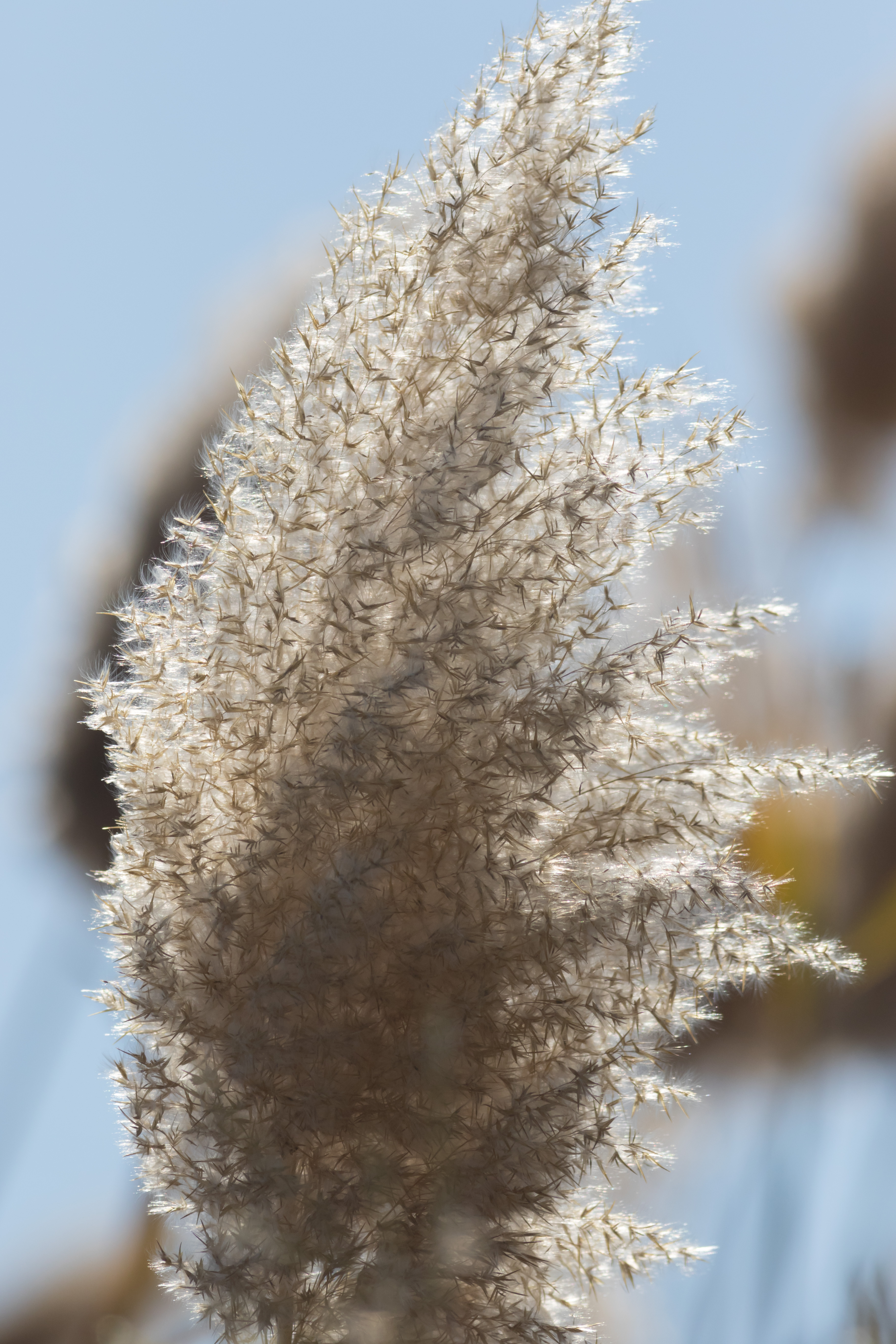 Phragmites australis blossoming (Israel, Yeruham lake(